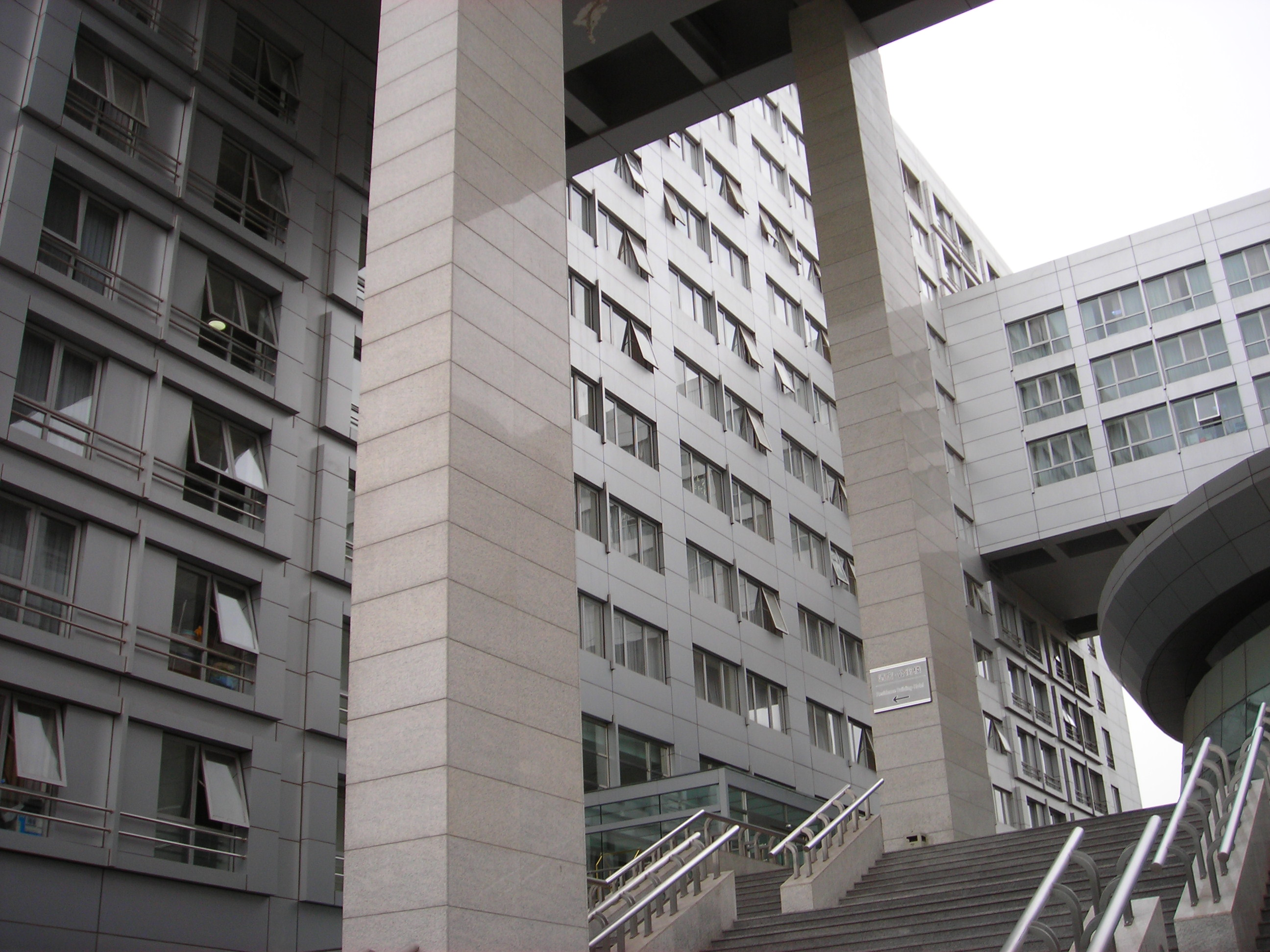 The International Center on the North Campus of Capital Normal University in Beijing, China.